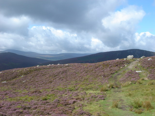 Wicklow Mountains. looking West from the R759 near Lough Tay.